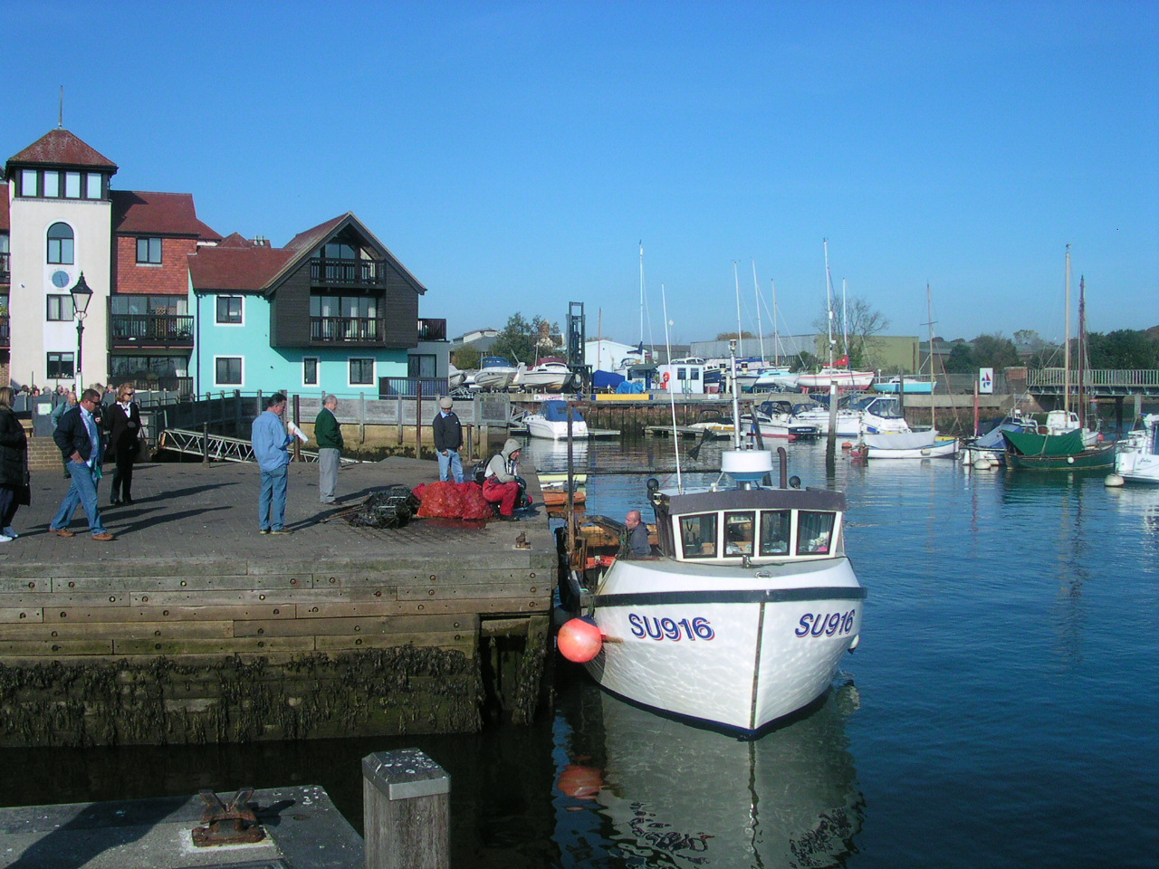 Lymington Harbour, Hampshire, England. November 2007.